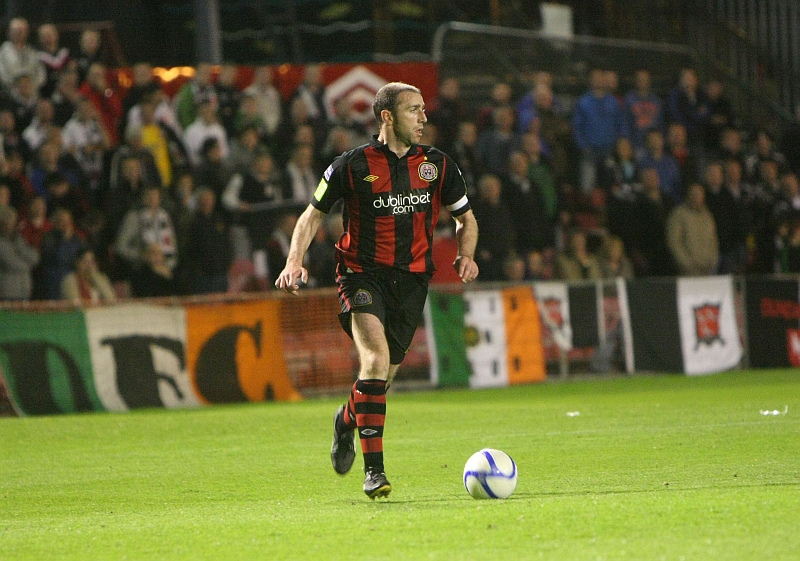 Owen Heary